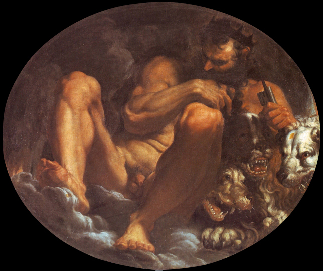 Pluto – Hades Galleria e Museo Estense, Modena, Italy. For more information, see Drawings by the Carracci from British collections (Ashmolean Museum, 1996), p. 35 [1]